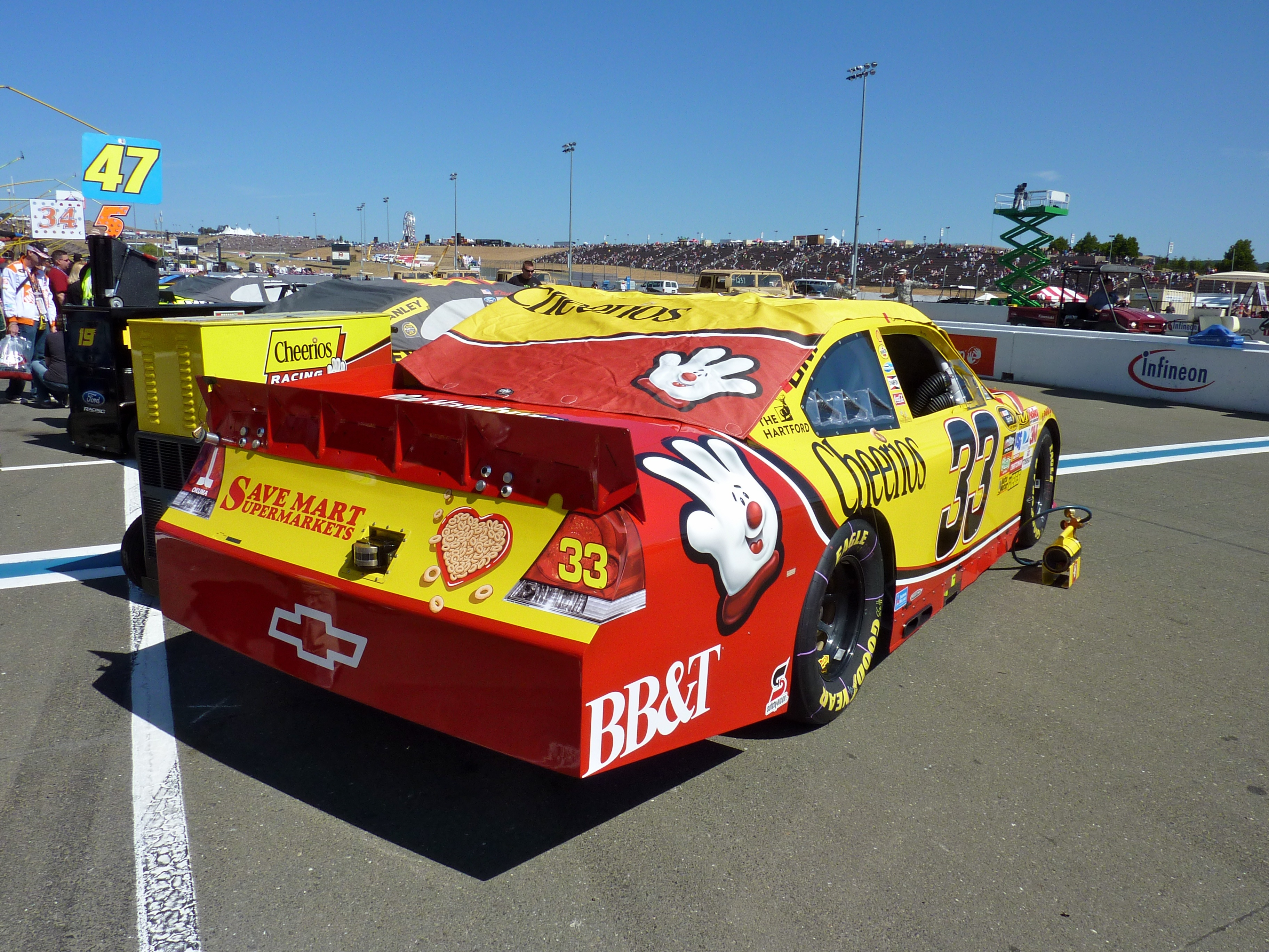 Clint Bowyer's No. 33 Cheerios/Hamburger Helper Chevrolet at Infineon Raceway in 2010